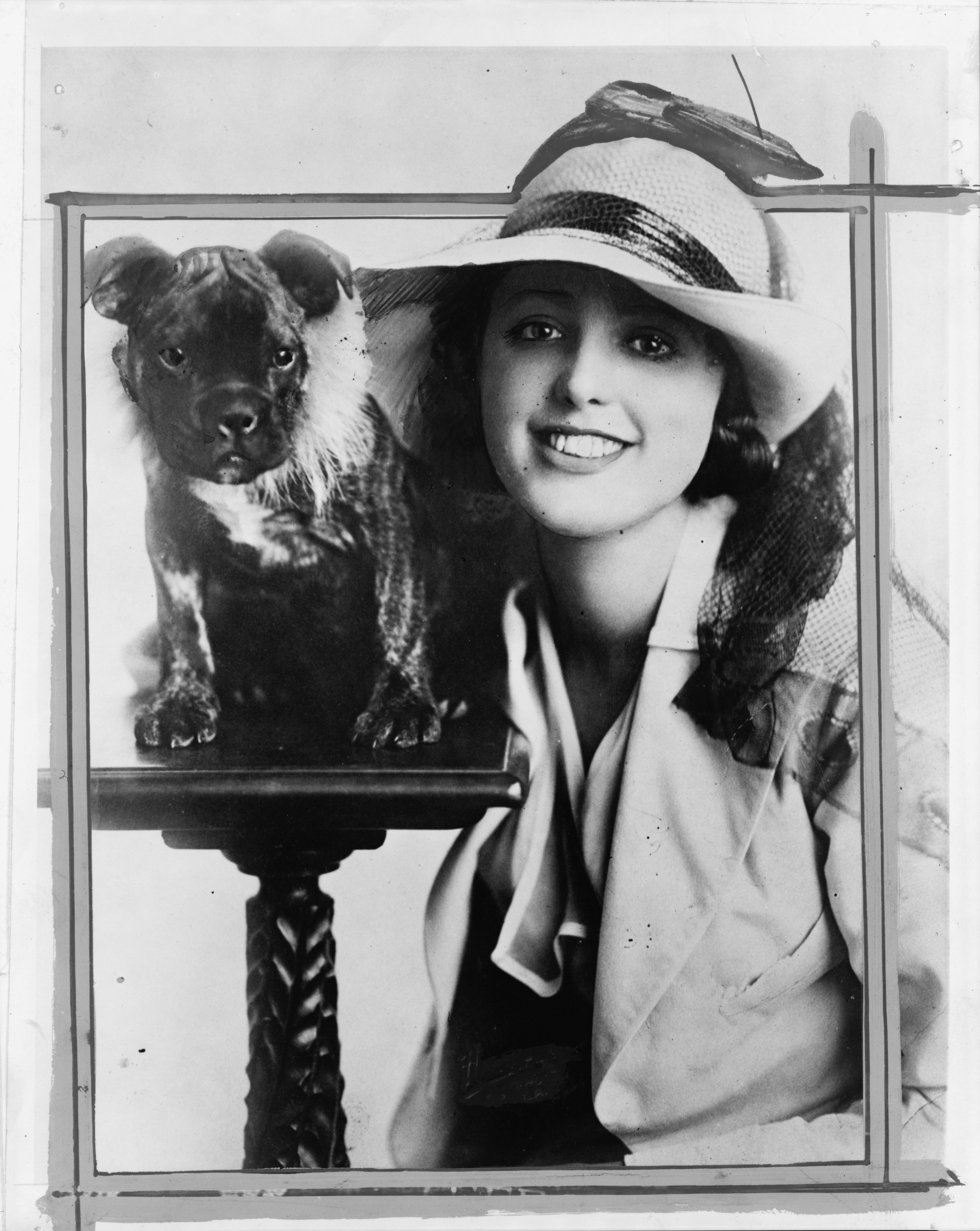 American actress Virginia Rappe (1895-1921)